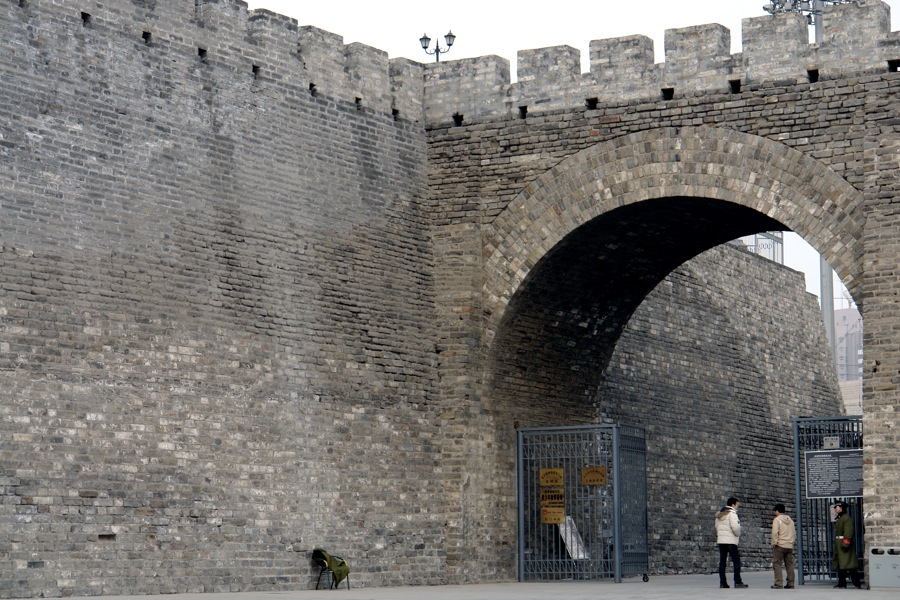 City Entrance, Ruins of the Beijing city wall built during the Ming Dynasty. Location